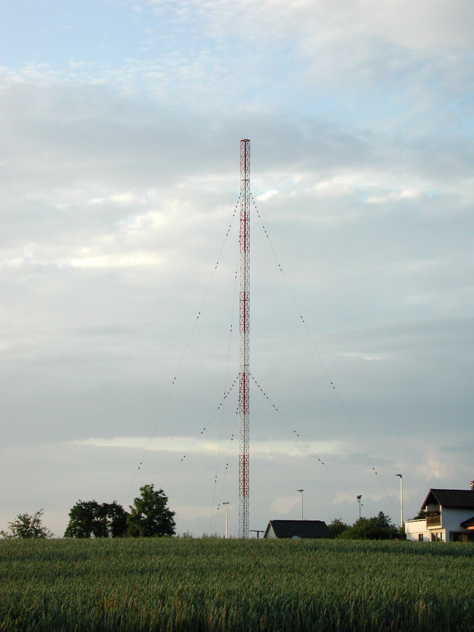 AM broadcast station in Jungingen near Ulm, Germany